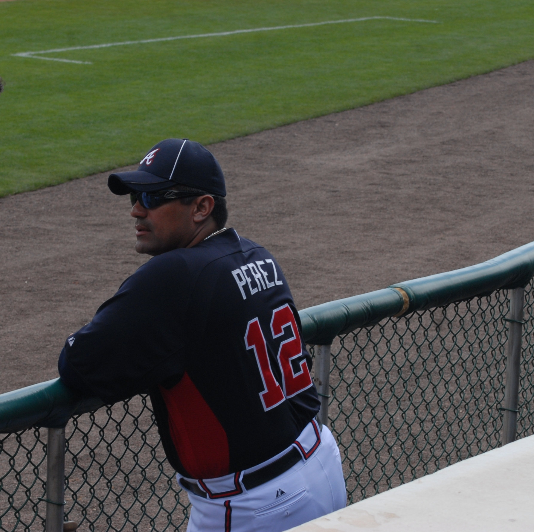 Eddie Pérez, bullpen coach for the Atlanta Braves in the dugout before a spring training game in Lake Buena Vista, Florida.